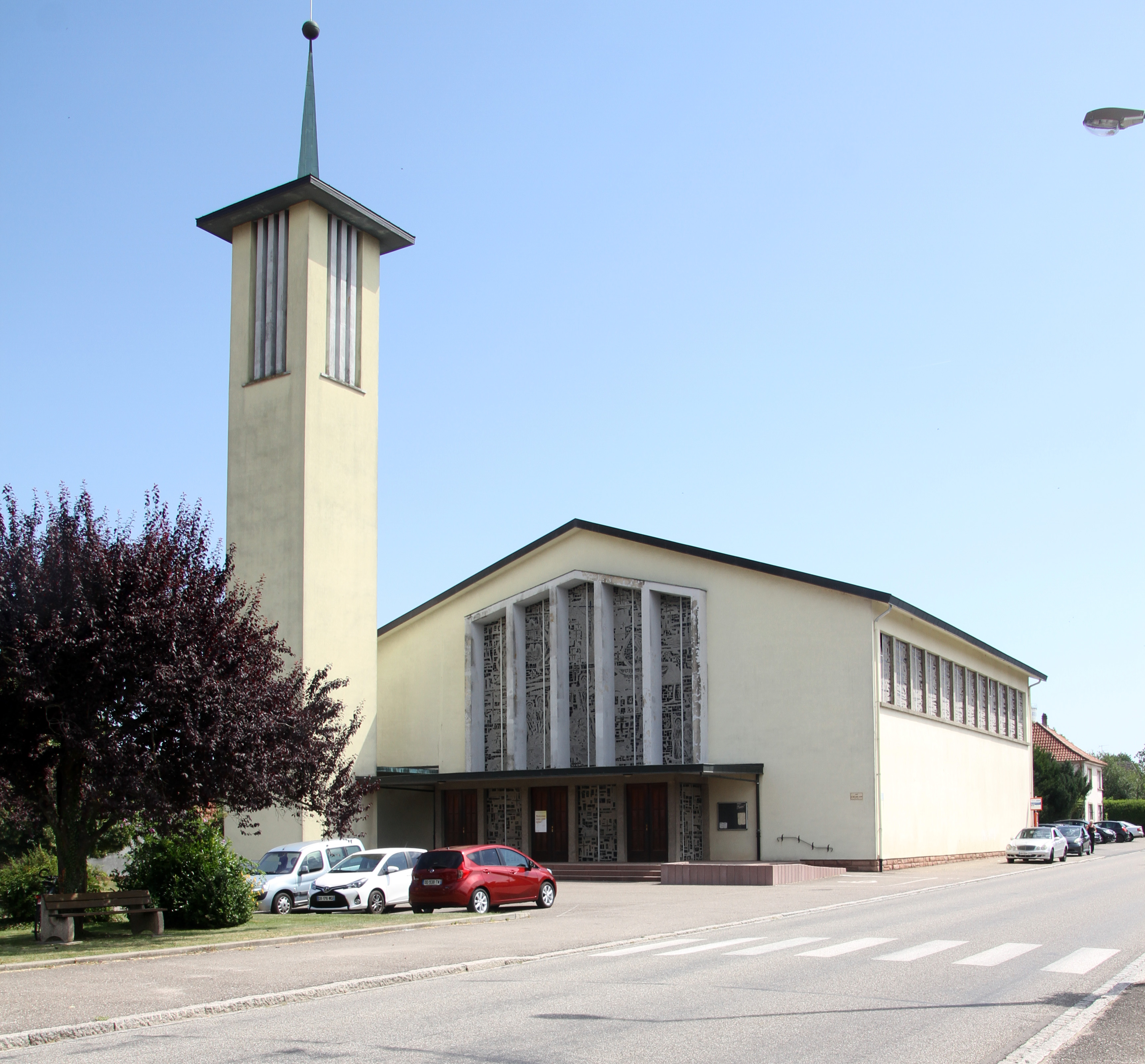 Church of St. Gallus in Rittershoffen.